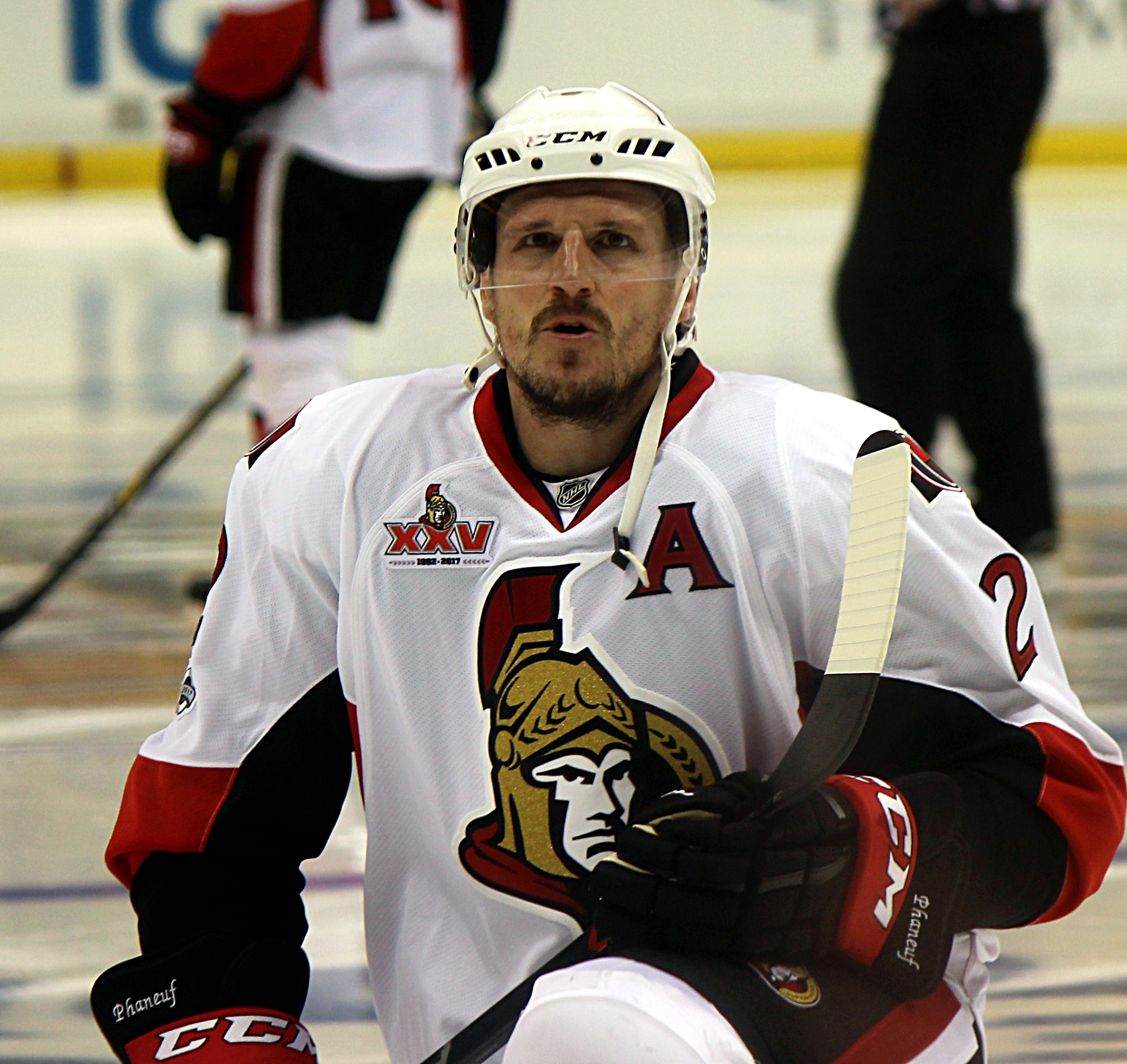 Ottawa Senators defenseman Dion Phaneuf during a playoff game against the Pittsburgh Penguins, May 13, 2017, at PPG Paints Arena in Pittsburgh, PA.